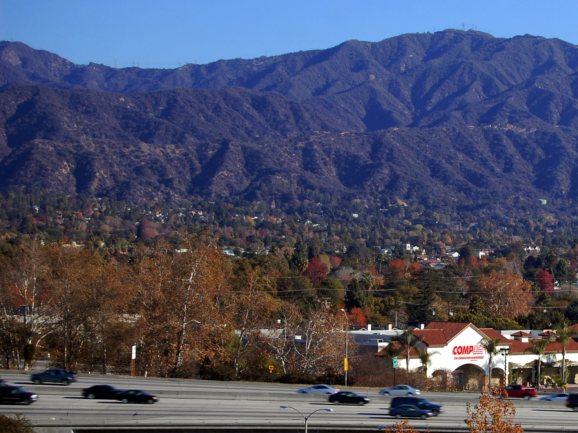 Interstate 210 in Monrovia, California with San Gabriel Mountains. Summit in upper right is Mount Bliss, (approx. 3240 feet AMSL). This summit is in the San Gabriel Mountains inside Angeles National Forest.